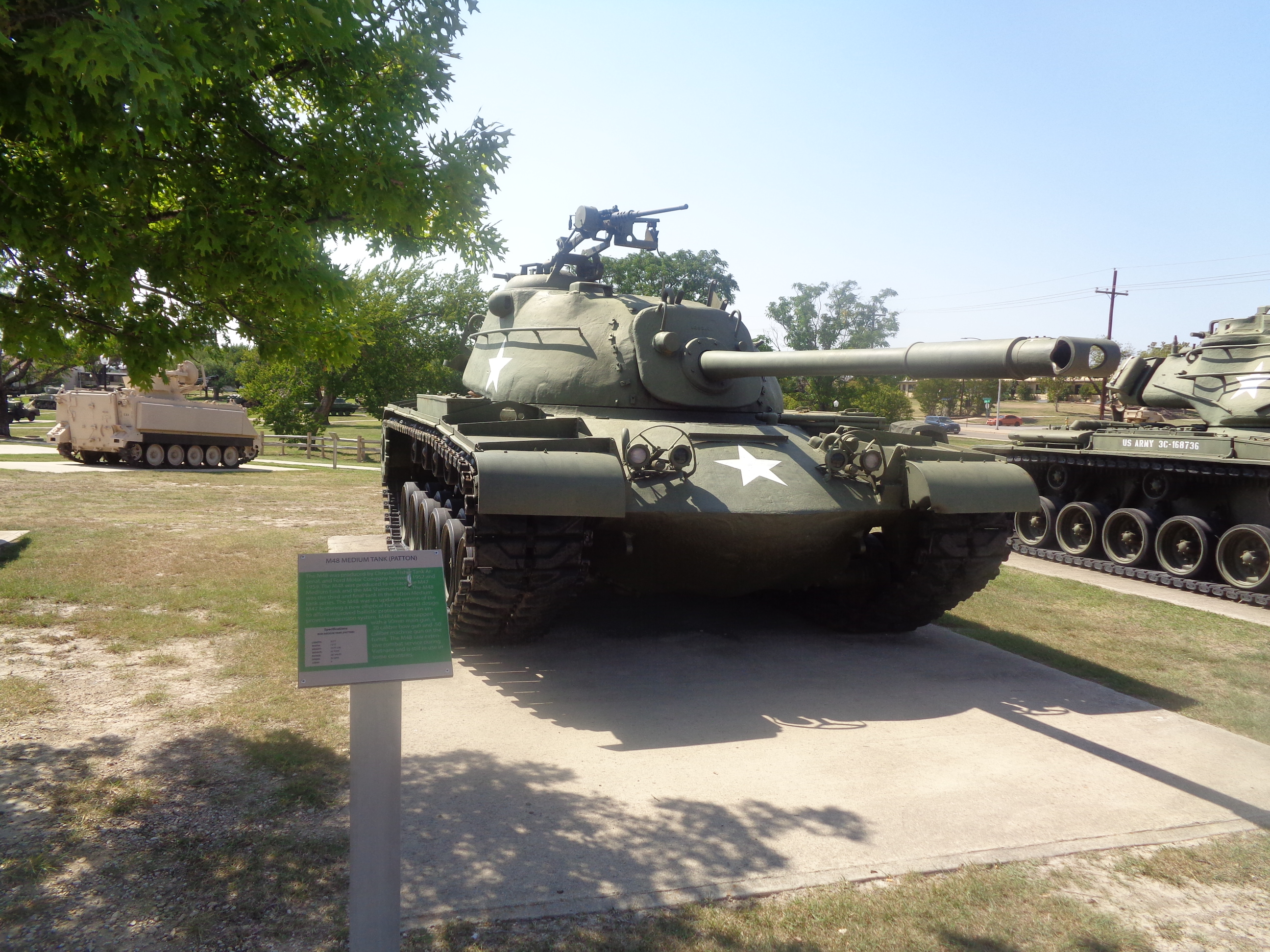 M48 Patton at 1st Cavalry Division Museum